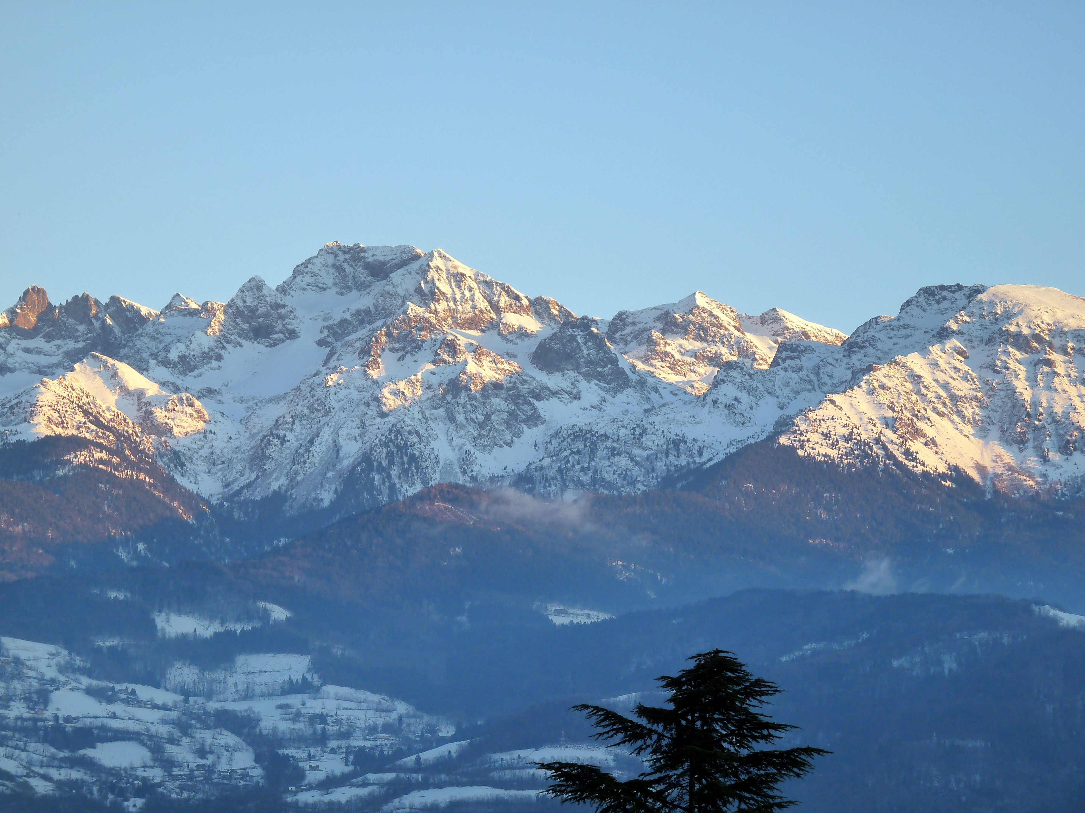 Grande Lance de Domene